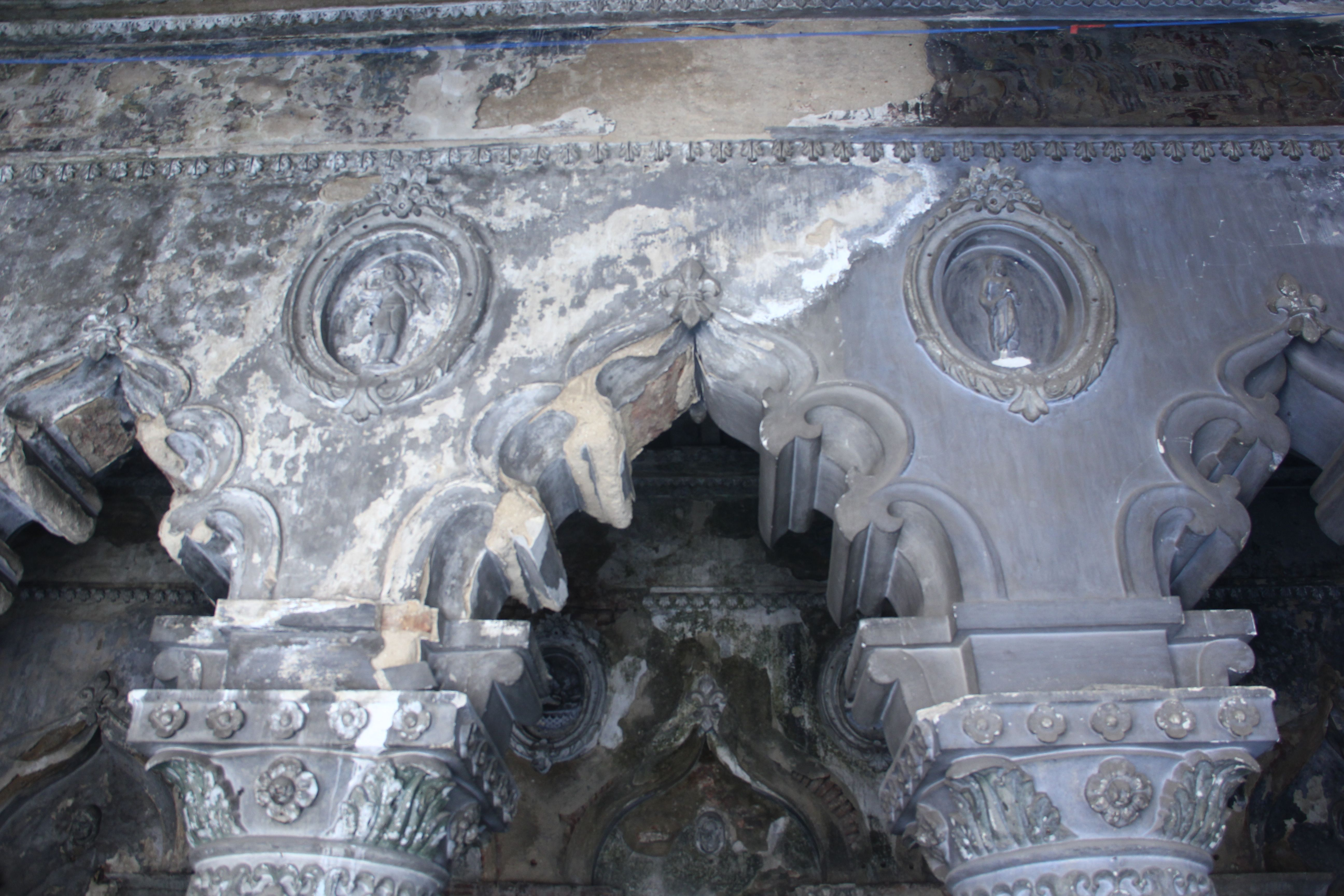 This image was taken in Basu Bati of Bagbazar in Kolkata